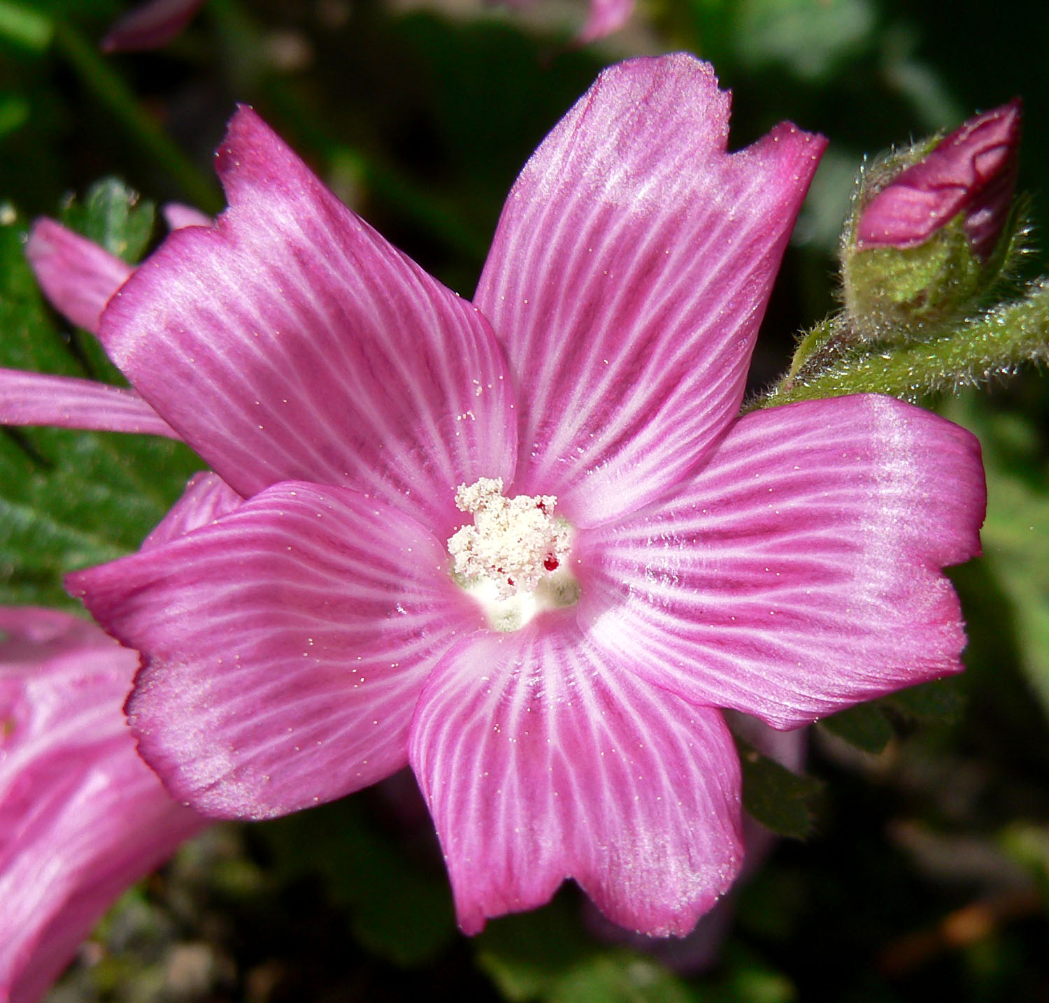 Sidalcea malviflora ssp. malviflora — Checker mallow, Dwarf checkerbloom. At the Regional Parks Botanic Garden, Berkeley Hills, California.